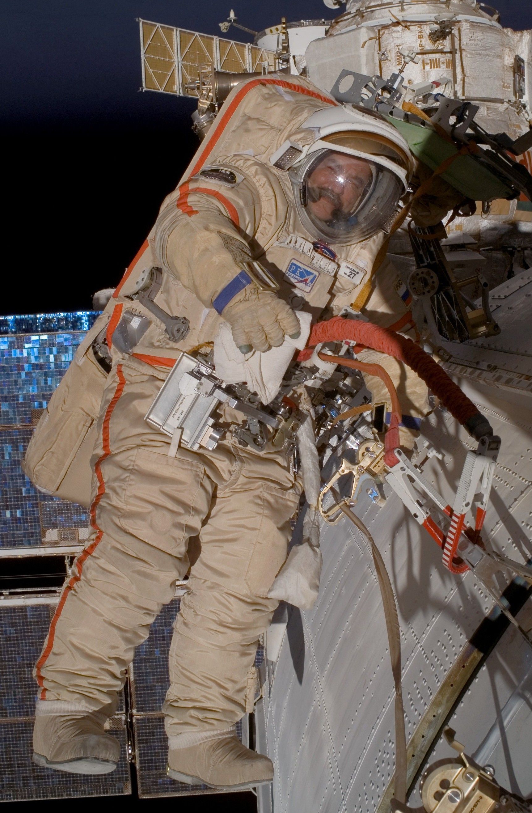 Cosmonaut Mikhail Tyurin, Expedition 14 flight engineer representing Russia's Federal Space Agency, wearing a Russian Orlan spacesuit, participates in a session of extravehicular activity (EVA). Among other tasks, Tyurin and astronaut Michael E. Lopez-Alegria (out of frame), commander and NASA space station science officer, were able to retract a stuck Kurs antenna on the Progress vehicle docked to the International Space Station's Zvezda Service Module.